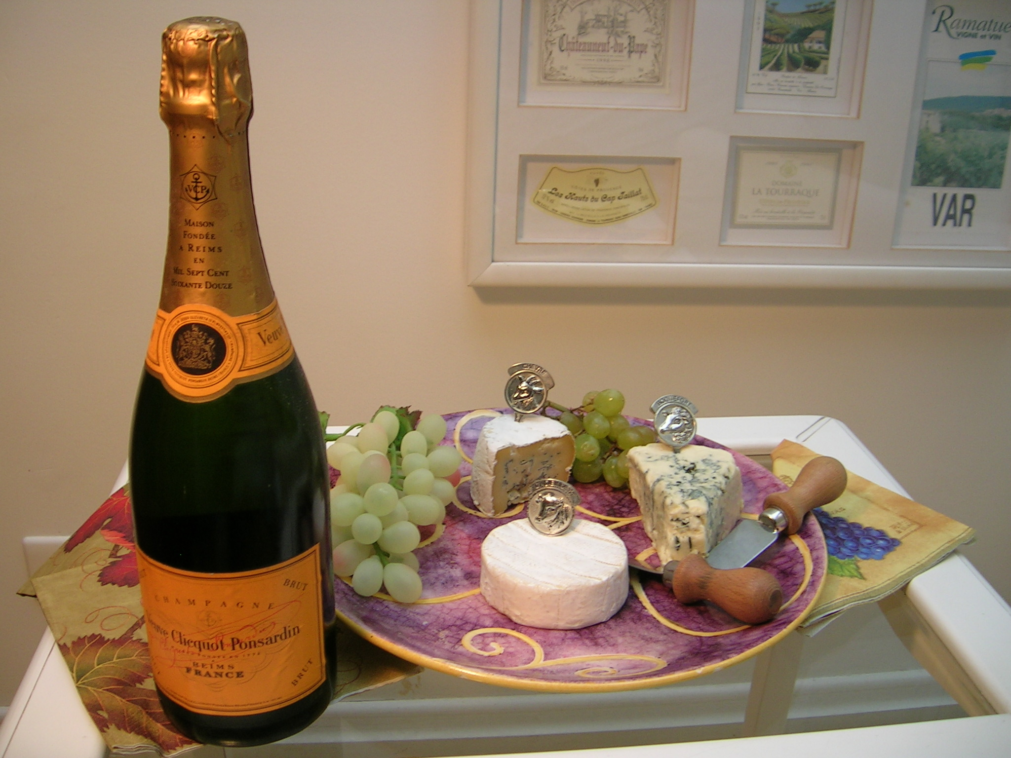 Champagne Veuve Clicquot - Bottle and chesses - France